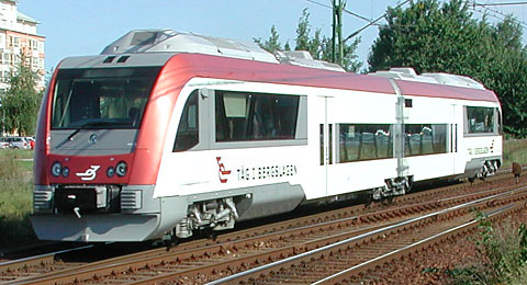 Railcar Class Y31 in Sweden, build by Bombardier Transportation in Hennigsdorf/Germany. In Germany this Class is named Itino. Owner of the shown Train ist the swedish Railway Company Tåg i Bergslagen.